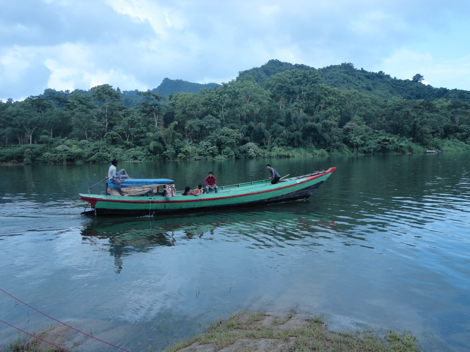 Kaptai Lake by Rahat